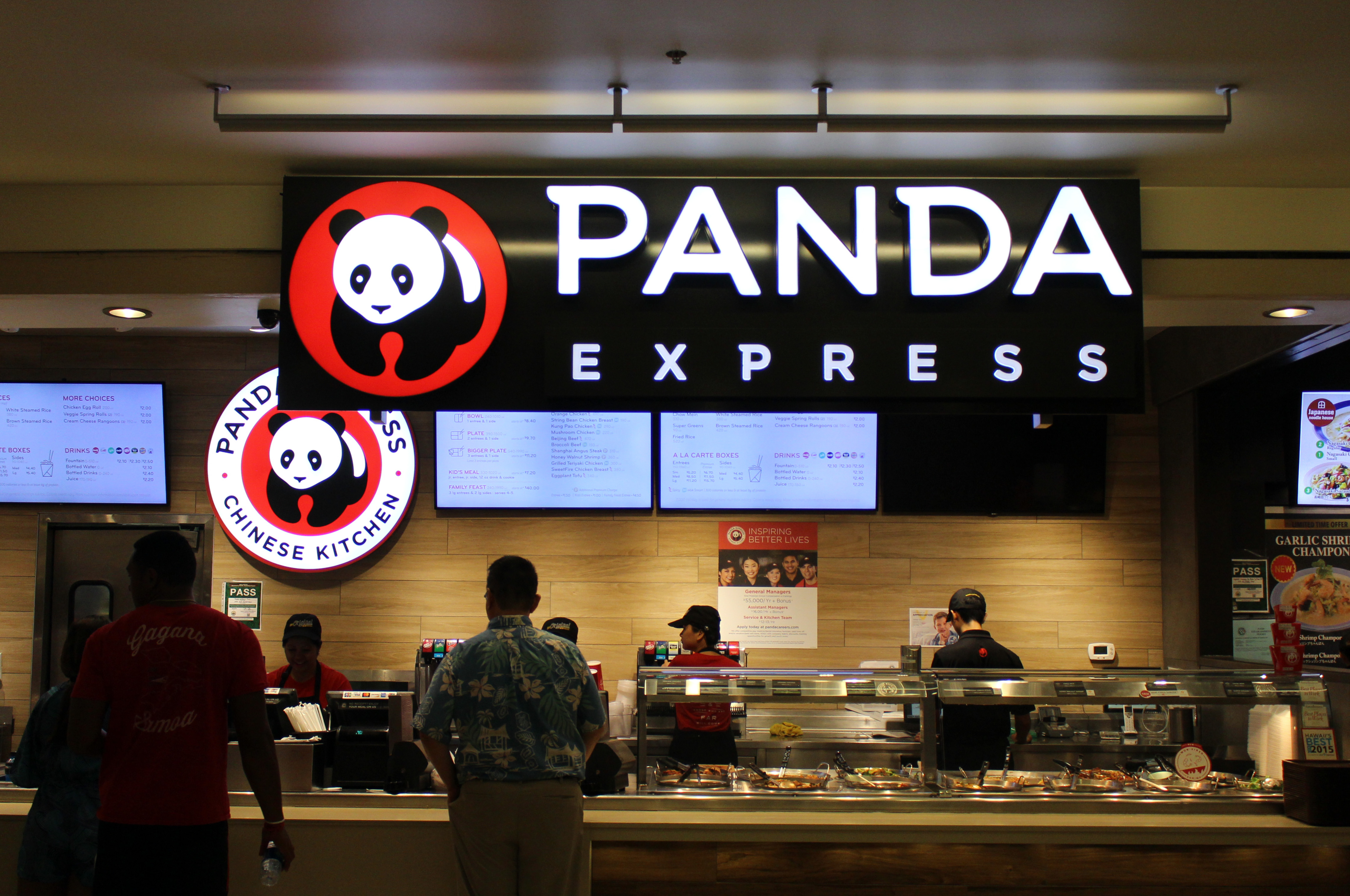 The Panda Express restaurant at Ala Moana Center in Honolulu, Hawaii. Photographed by user Coolcaesar on May 25, 2019.